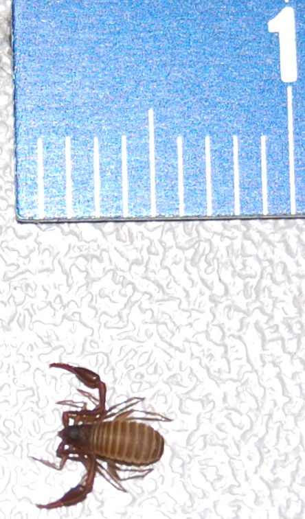 Chelifer cancroides (and metric ruler)